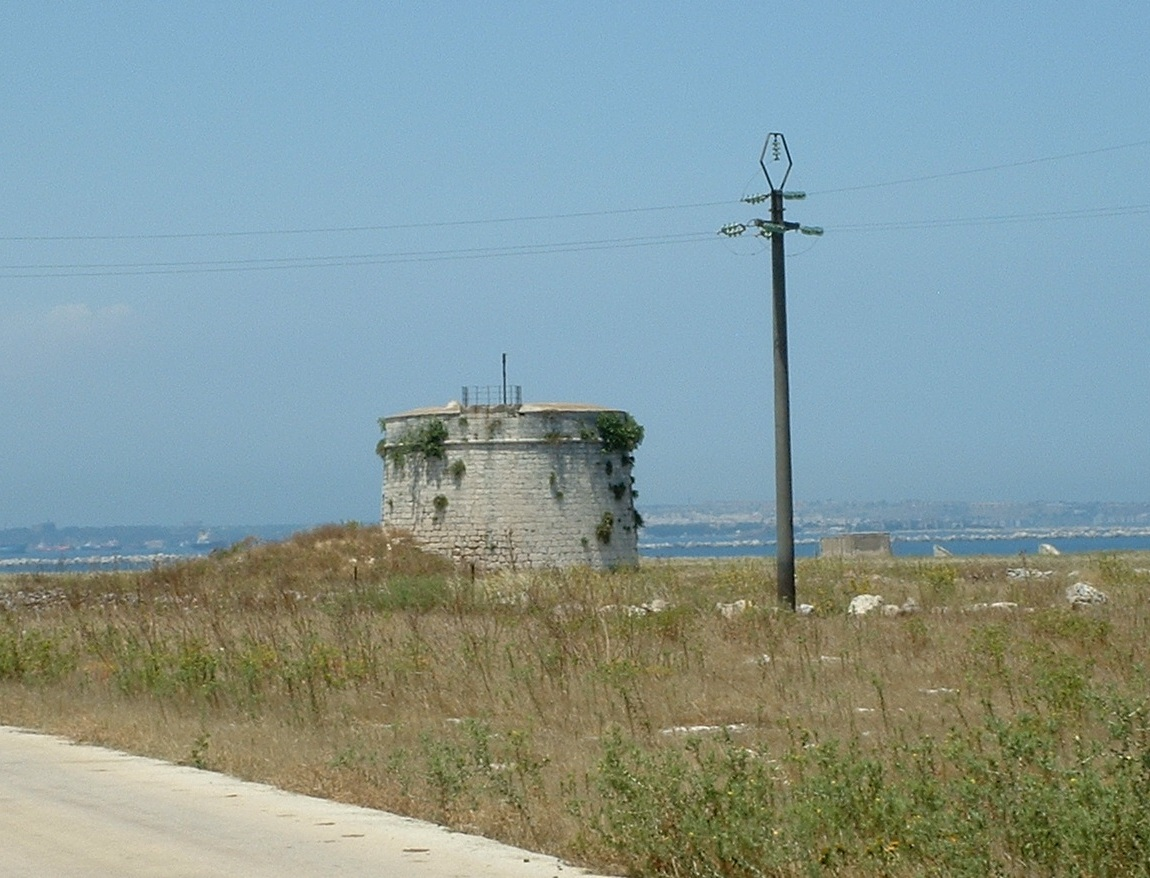 The Magnisi Tower (XV-XVI sec.) in Magnisi paeninsula, Priolo Gargallo, Italy